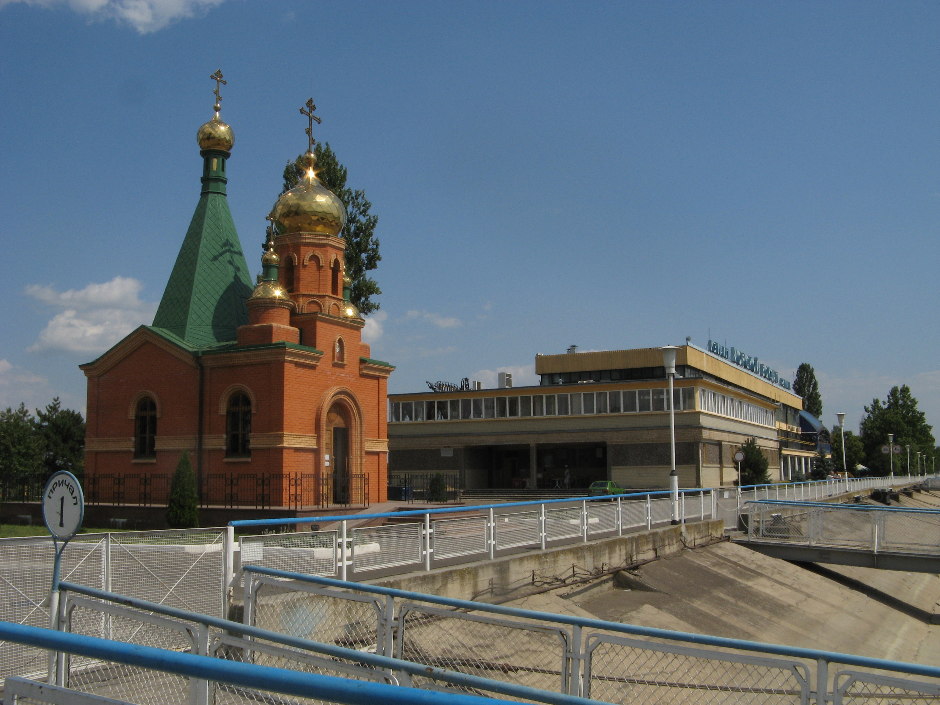 The passenger terminal of the Port of Izmail with the Chapel of St. Nicholas. Naberezhna Luky Kapykrayana, Izmail, Ukraine